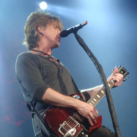 John Rzeznik performing Sweetest Lie at Darien Lake Performing Arts Centre on July 23rd, 2010.